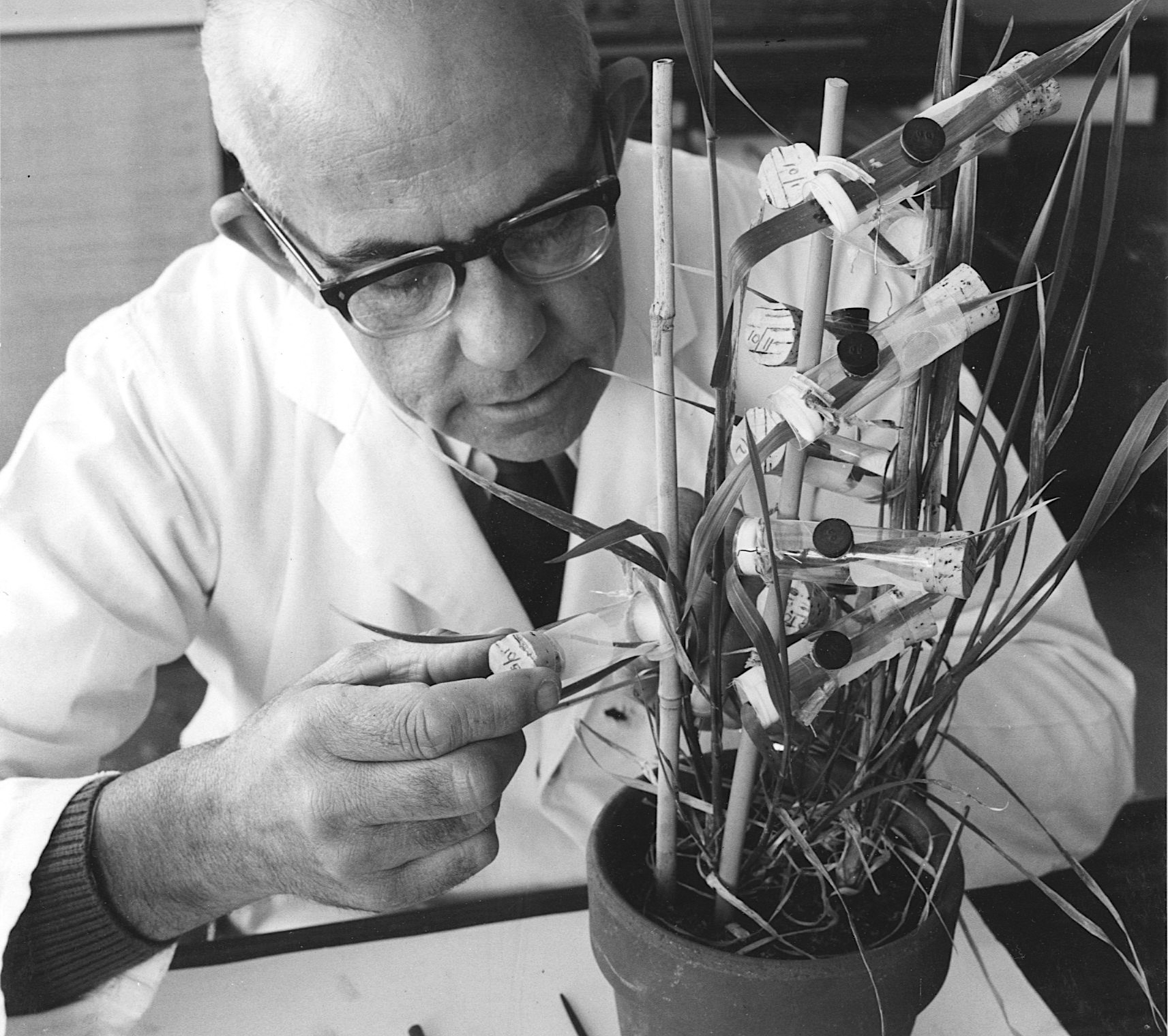 "Mr A. D. Lowe provides a control environment for wheat aphids." From an album of staff photos kept by the Lincoln University Entomology Department.